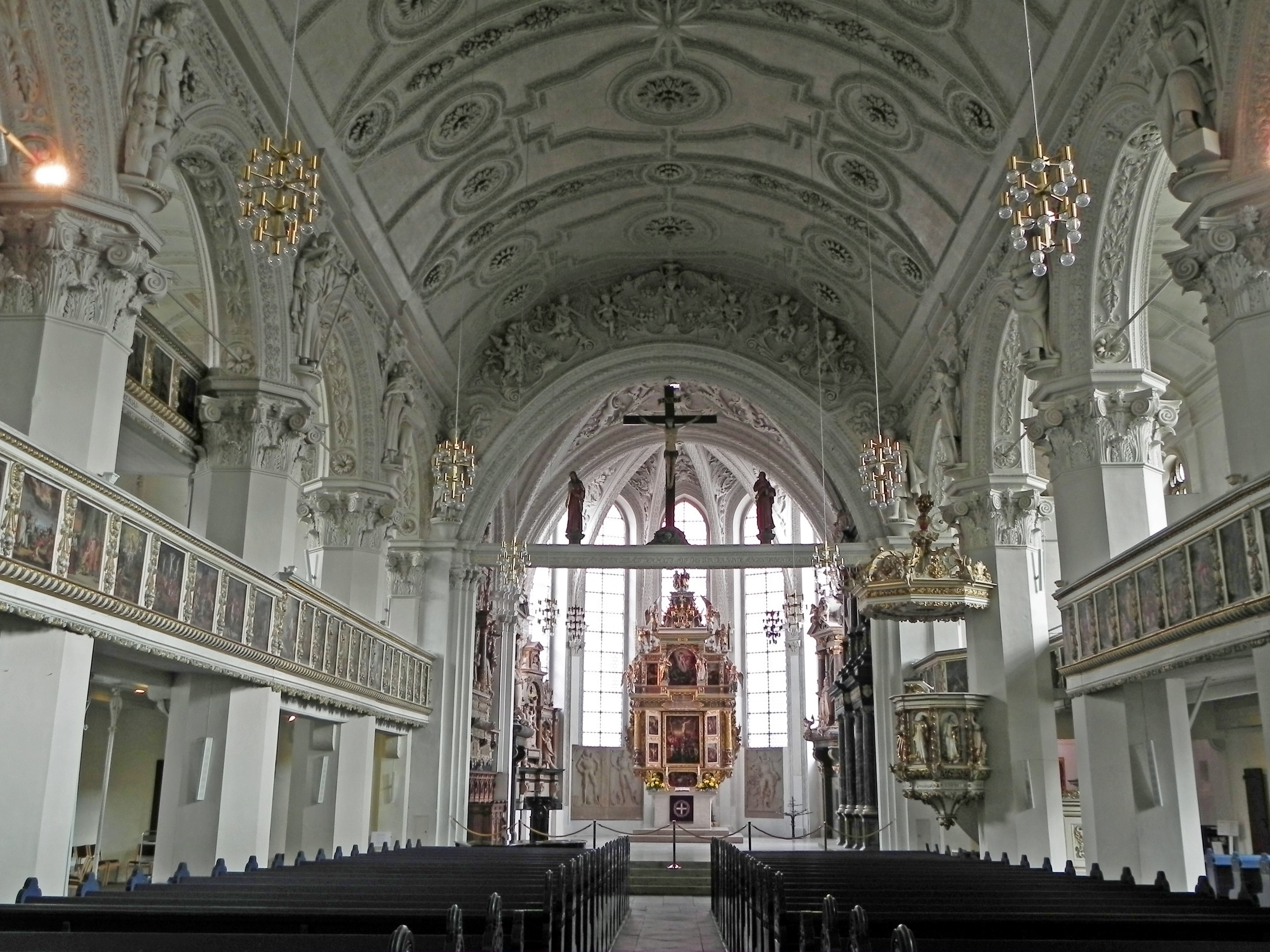 Interior of city church in Celle.